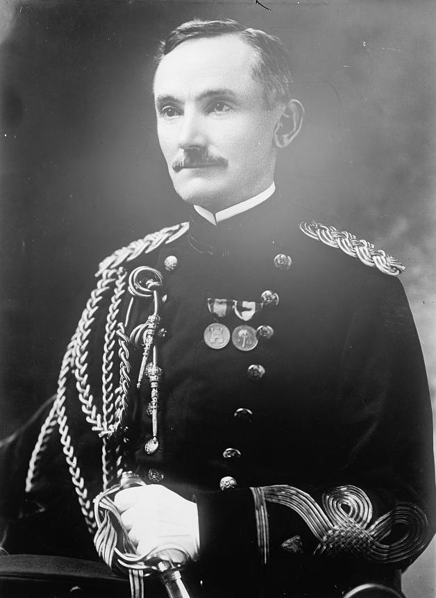 Brig. Genl. Henry P. McCain.